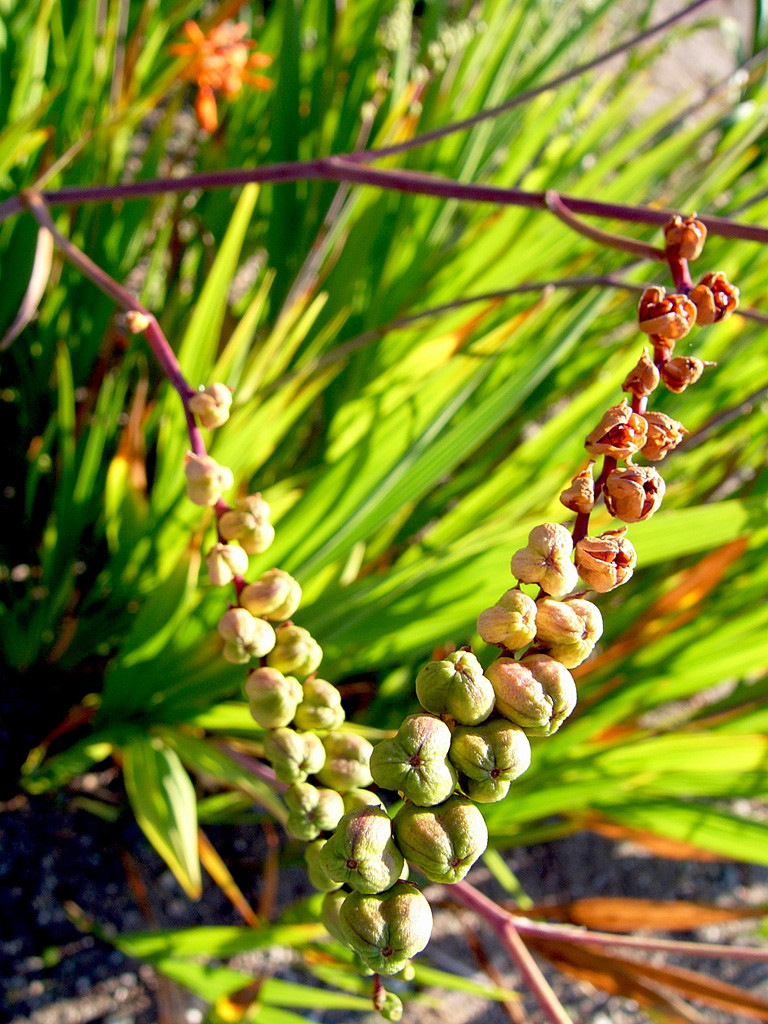 Plant "Crocosmia Aurea" from South Africa